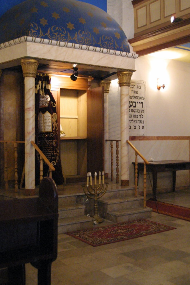 Reicher Synagogue in Łódź, Poland.